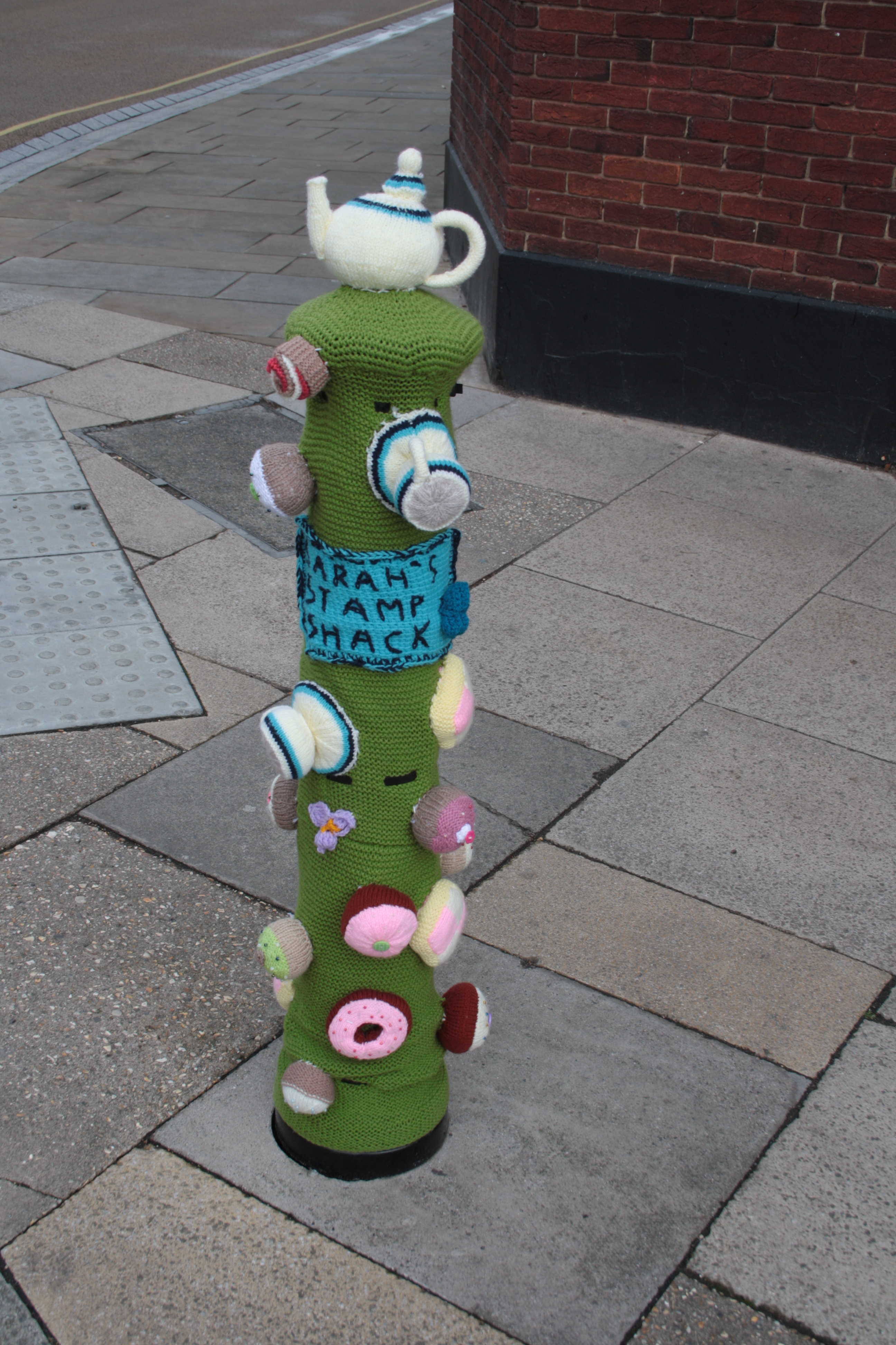 Knitted decoration on a traffic bollard